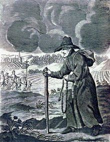 Czech Jesuit writer